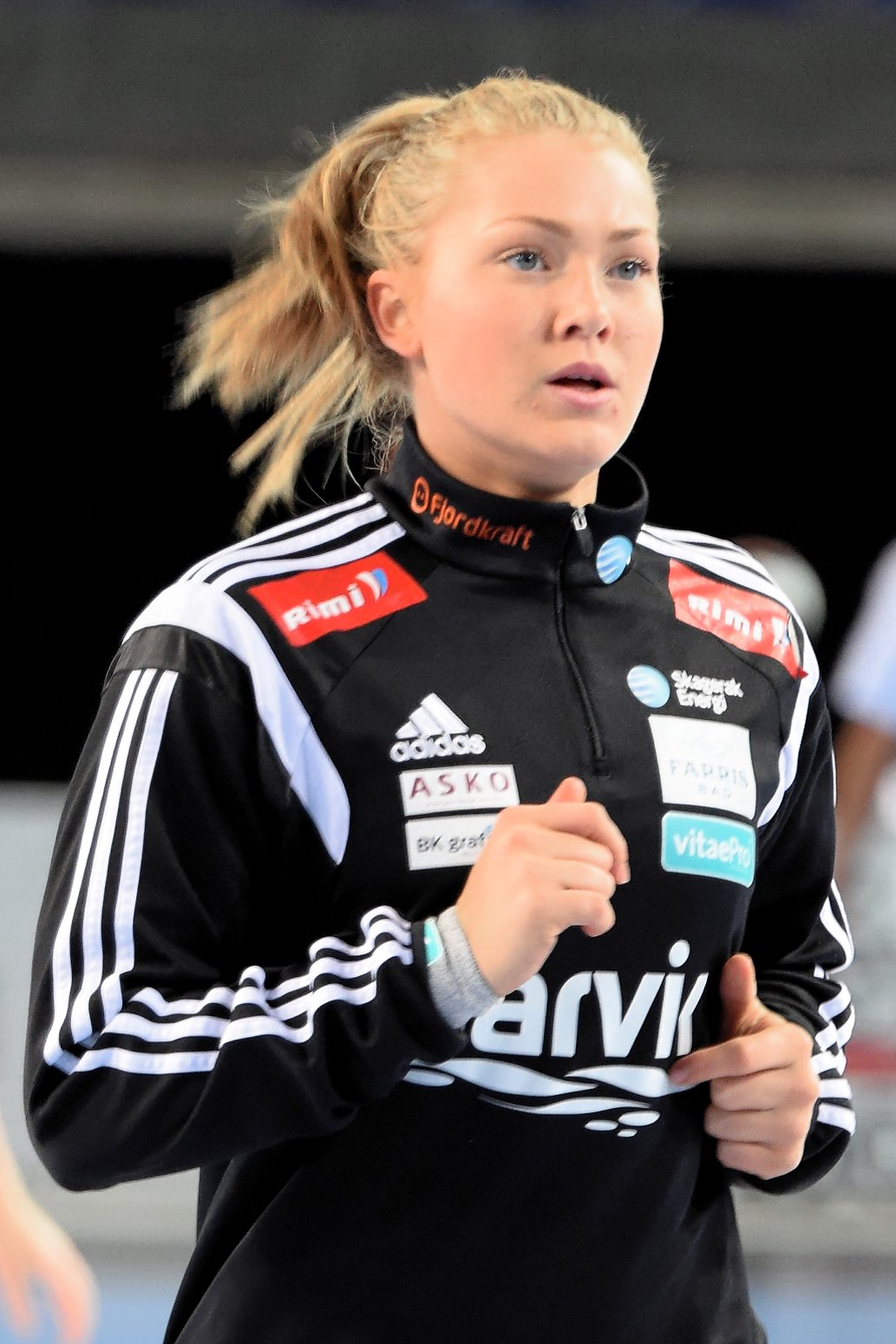 Vilde Ingeborg Johansen - EHF Champion's League, Metz Handball / Larvik HK - 15 november 2014.